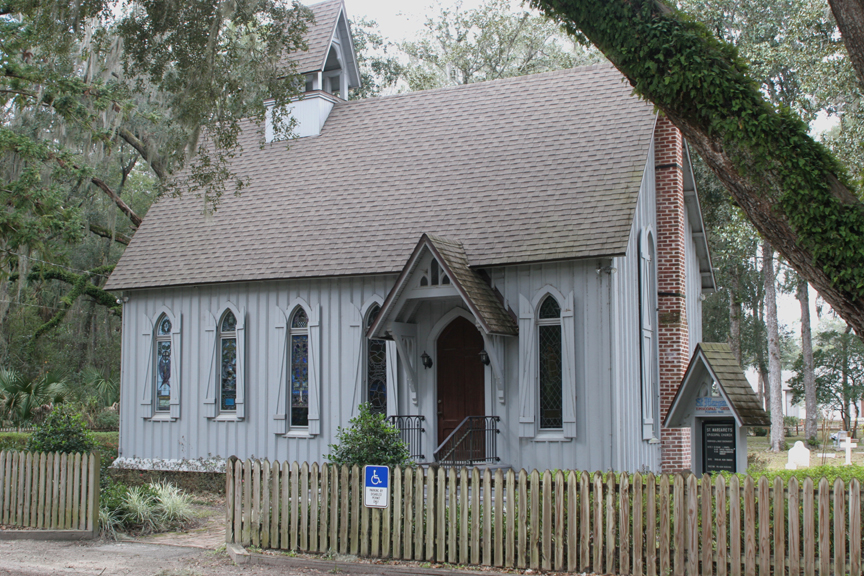 St. Margaret's Episcopal Church and Cemetery, near Orange park, FL. It is one of the 5 oldest wooden churches still in use in Florida.